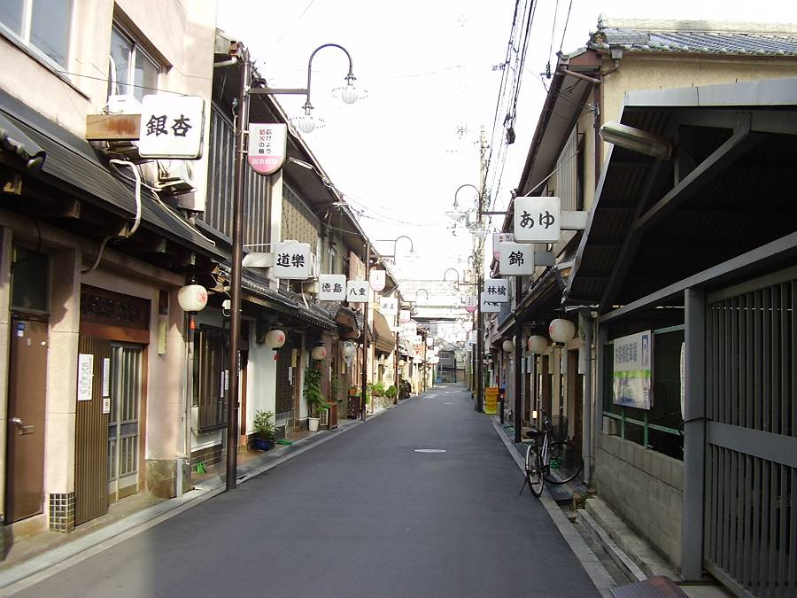 Tobitashinchi